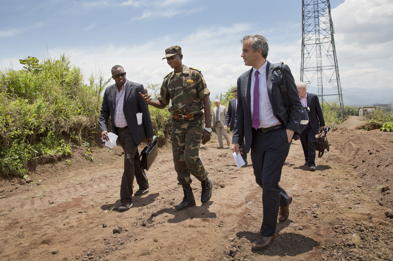 Members of UN Security Council, Eugene-Richard Gasana (rwanda) and Alexis Lamek (France) along with FARDC Col. Mamadou climb on top of Three Tower Hill near Goma from where M23 rebels have recently been forced out, the 6th of October 2013. © MONUSCO/Sylvain Liechti